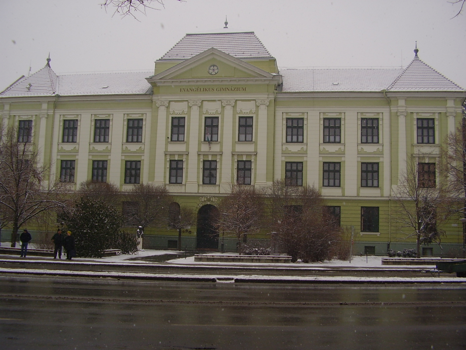 Evangelic high school in Békéscsaba in Hungary